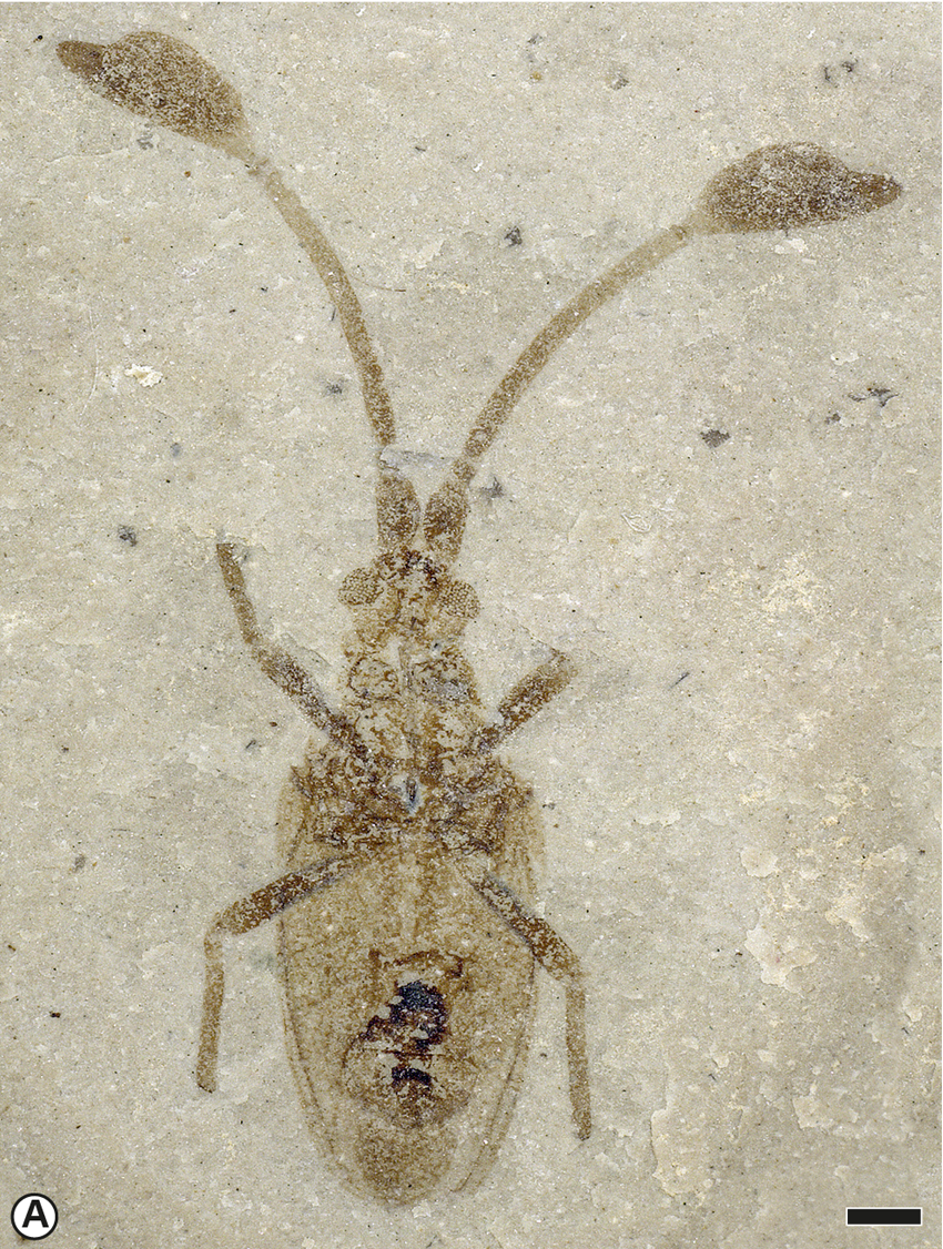 Fig 3. Morphological aspects of the paratypes of Gyaclavator kohlsi. A. Paratype. USNM 578171; male in ventral view. Scale bar represent 0.5 mm.